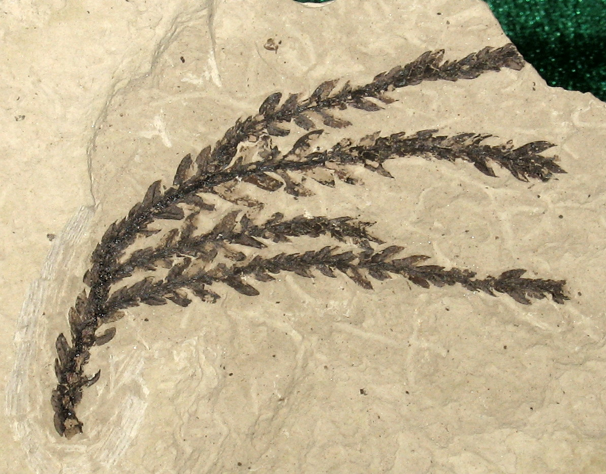 A branch from an unidentified extinct species of Cunninghamia. 48.5 million years old, Klondike Mountain Formation, Republic, Washington. Stonerose Interpretive Center # SR ??-??-??.